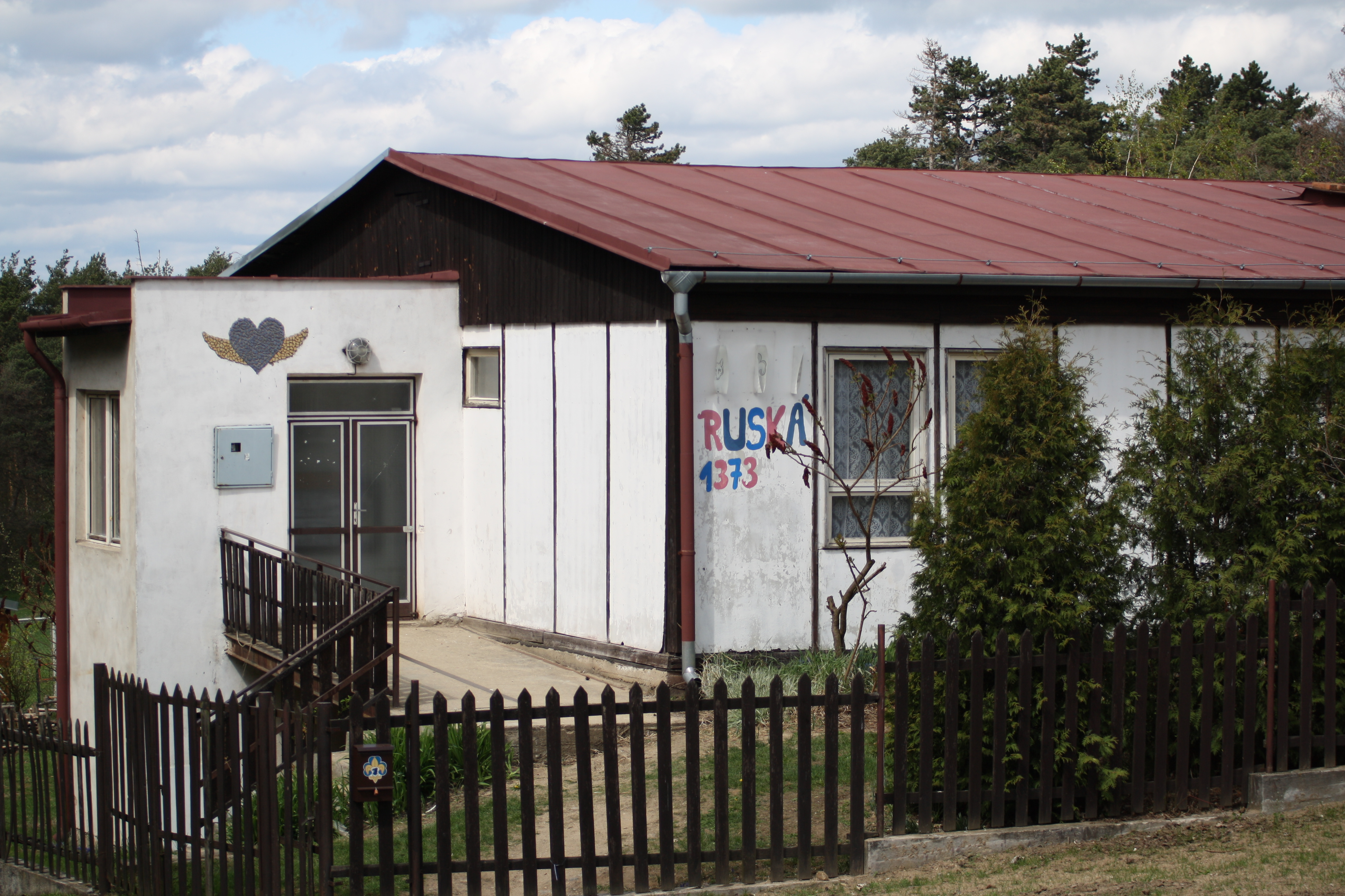 Scouting clubhouse (Srdíčko) in Třebíč, Czech Republic.